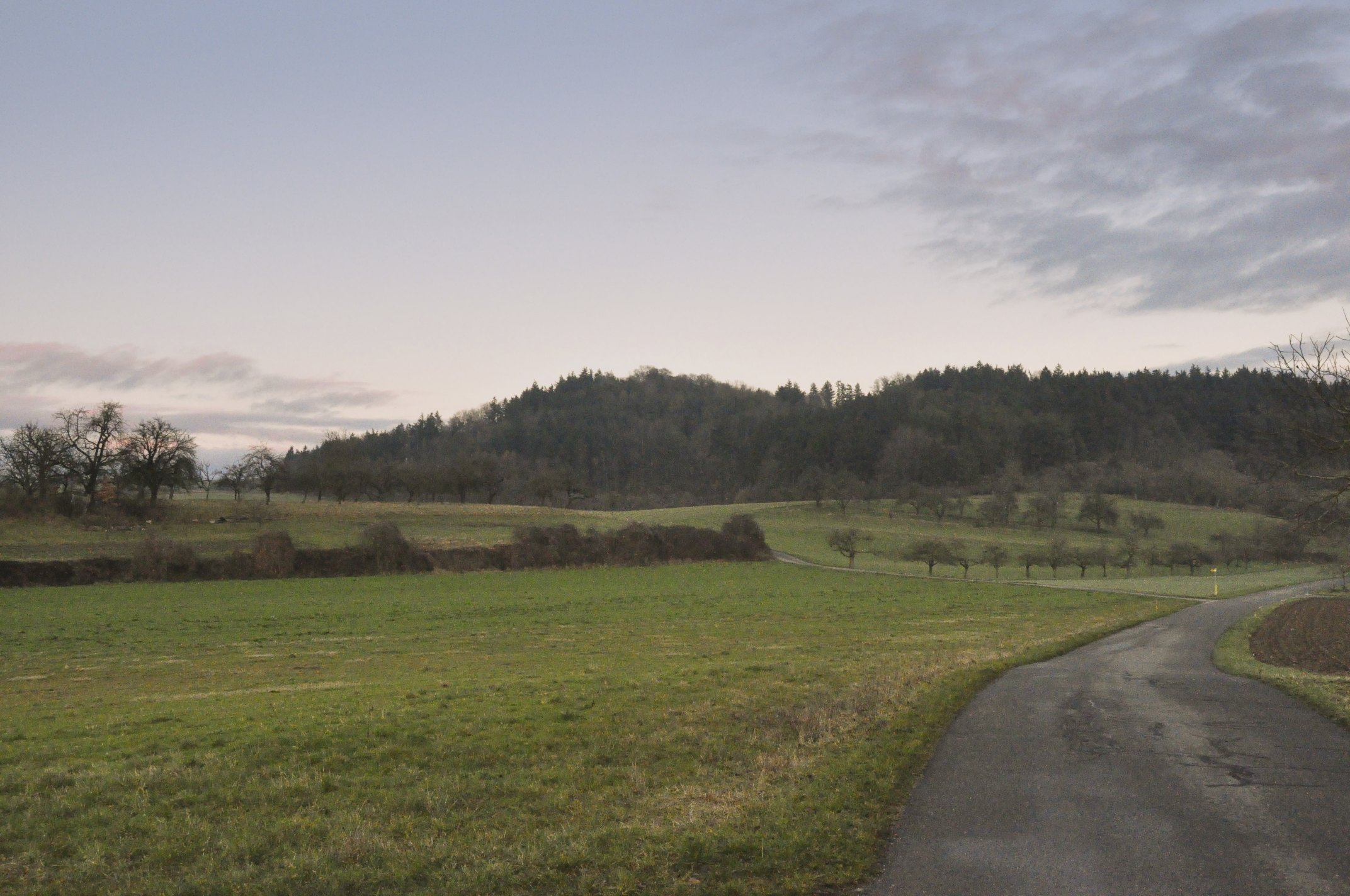 Staufen